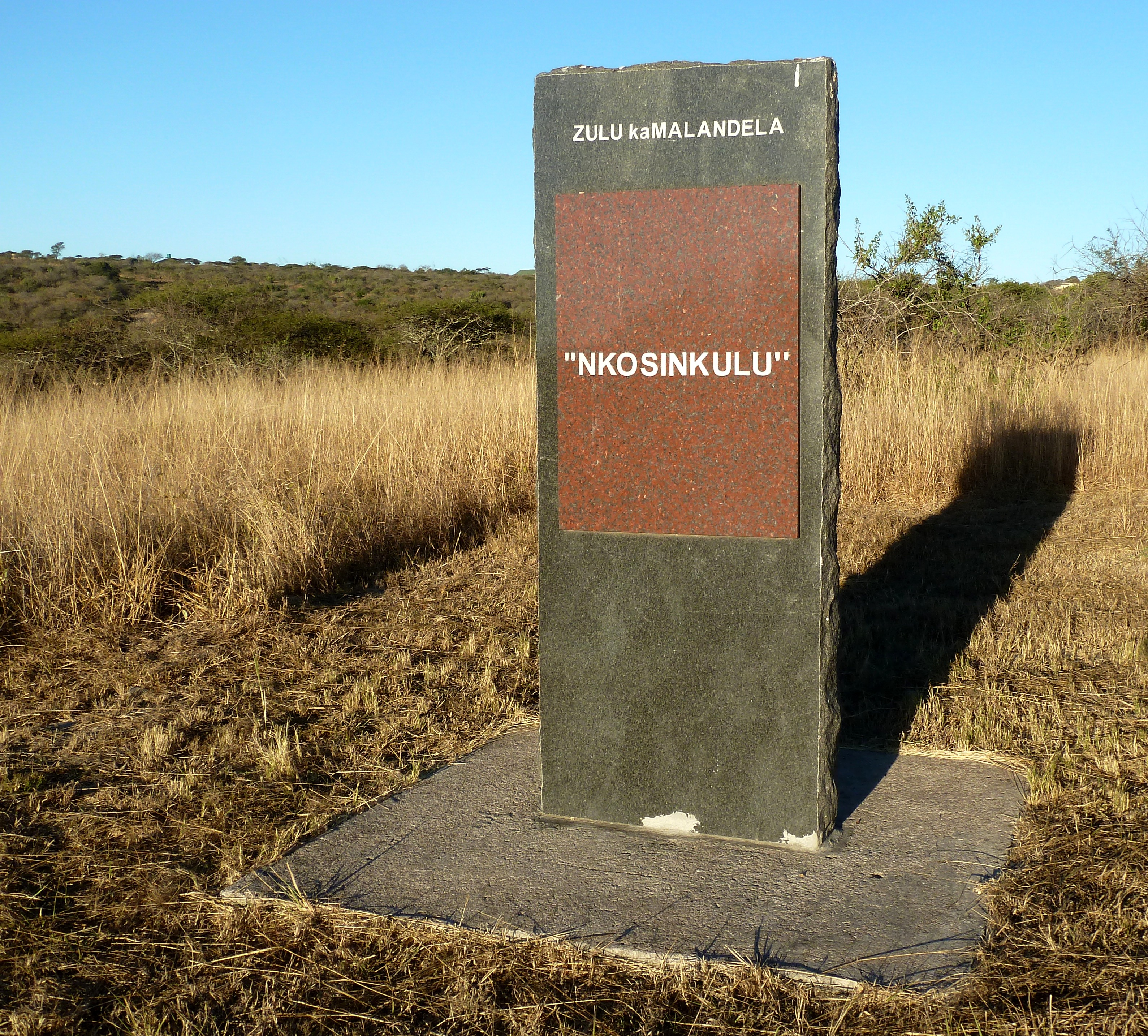 A sign outside the entrance of uMgungundlovu, commemorating "Nkosinkulu", i.e. Zulu kaMalandela, the founder of the Zulu nation, who is buried nearby.